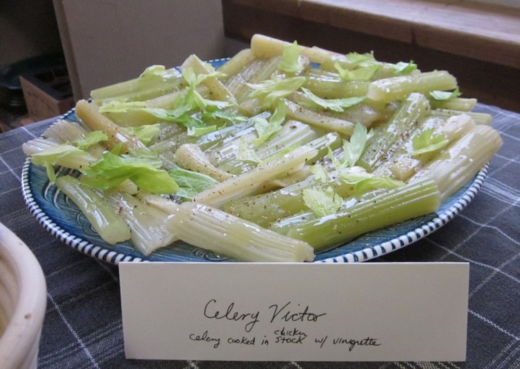 Cathy2's Celery Victor -- celery braised in chicken stock with a vinaigrette dressing (from when Celery was King!)